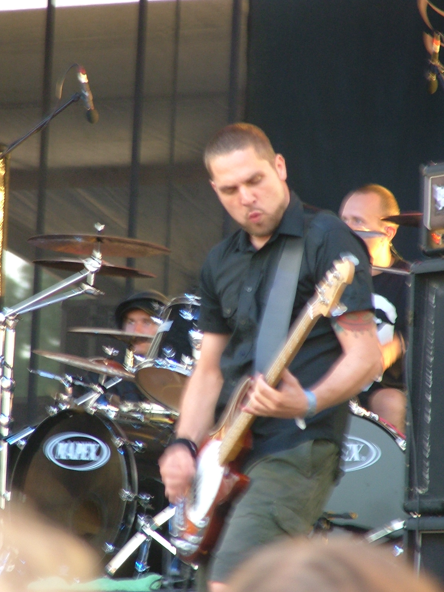 Danish heavy metal band Volbeat at the Summer Breeze in Dinkelsbühl